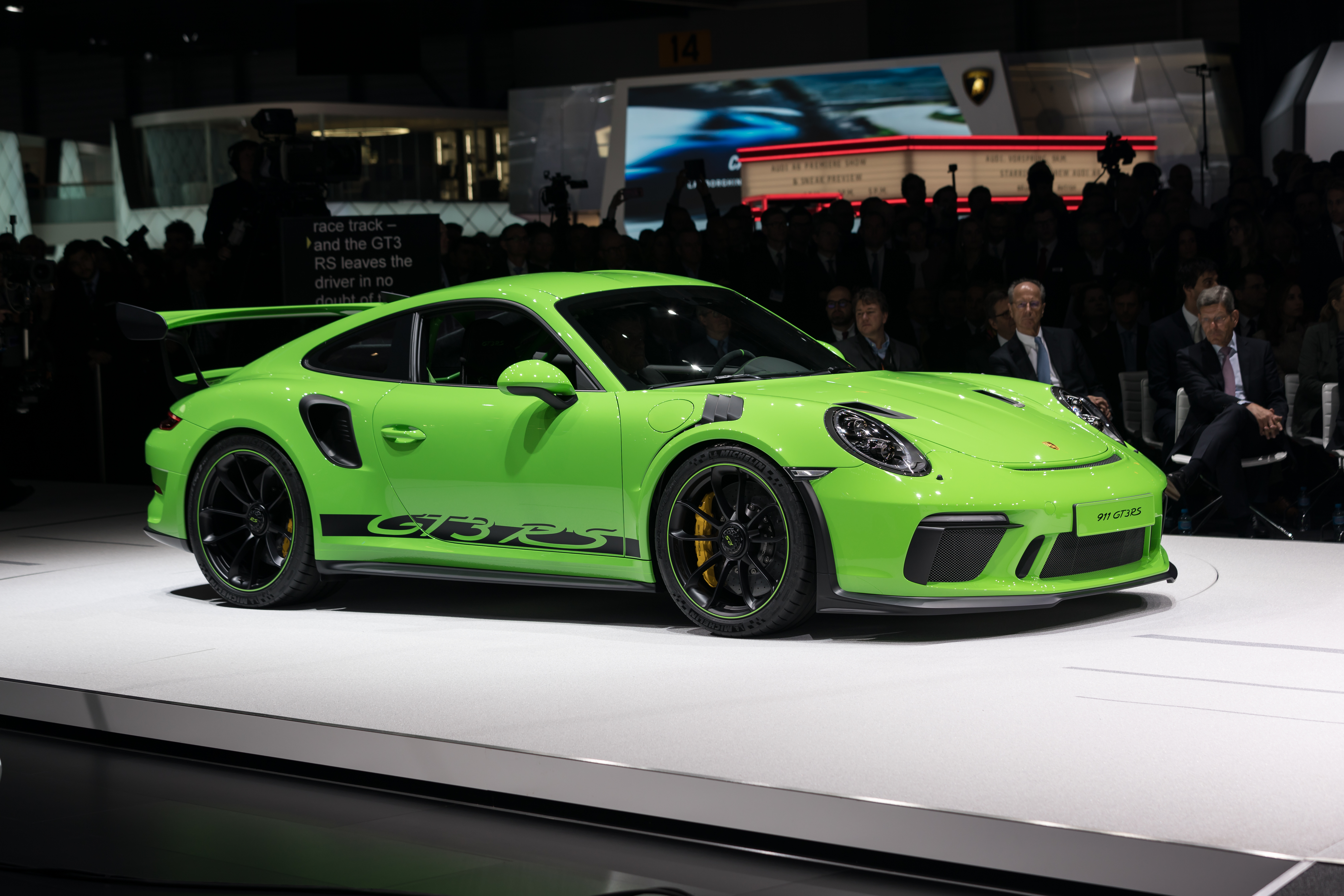 Geneva International Motor Show 2018, Porsche 911 GT3 RS